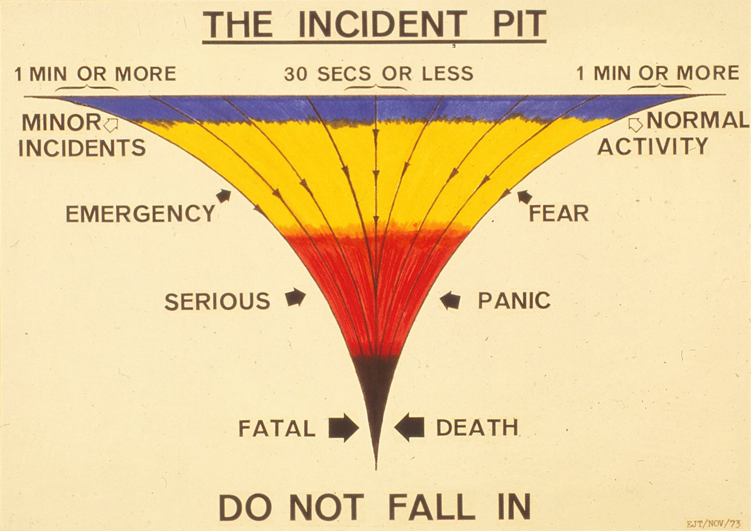 Diagram of The Incident Pit for article